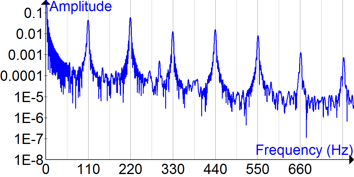 Fourier Transform of an A on a Bass Guitar at 110 Hz fundamental computed with